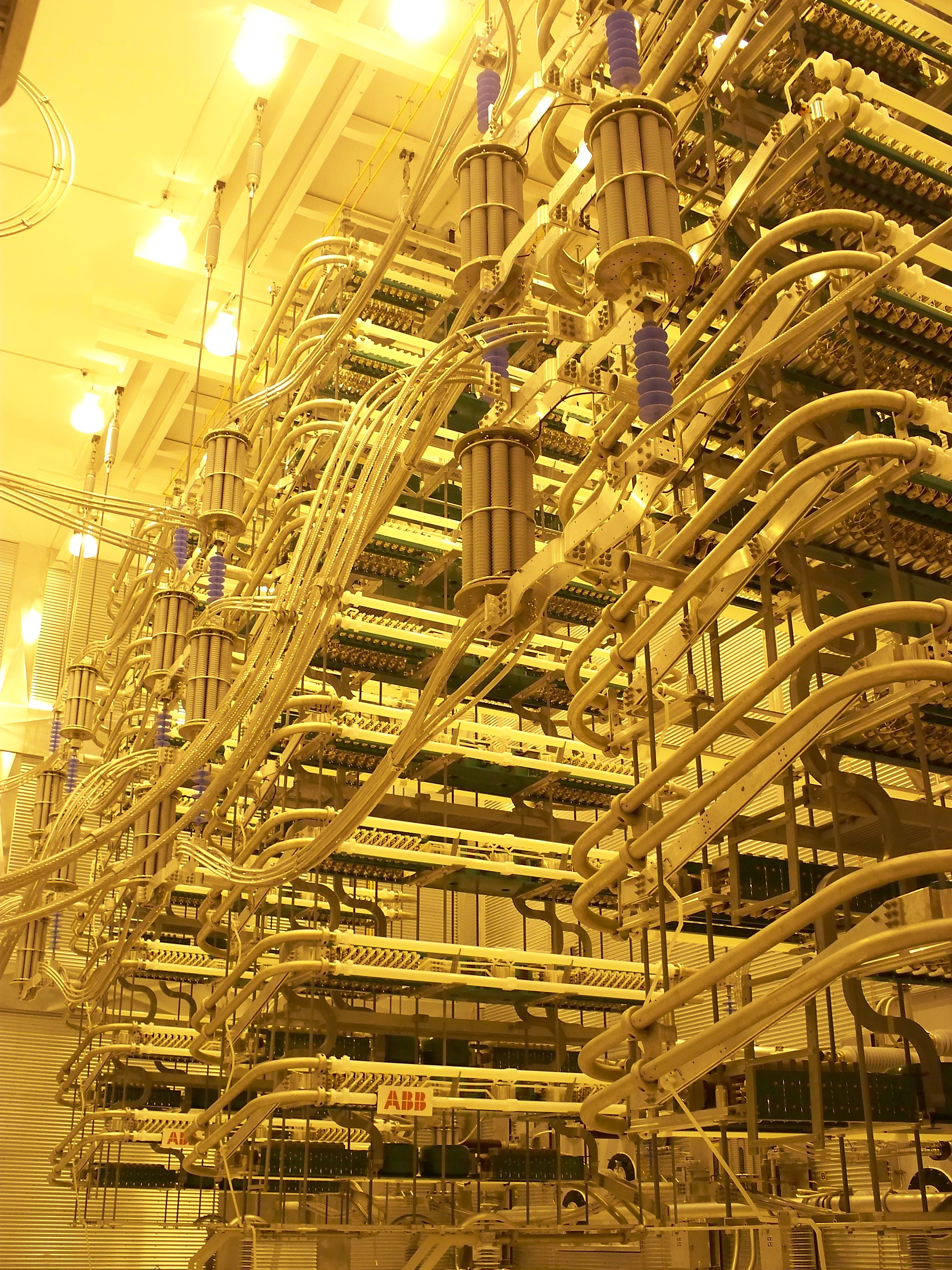 Rectifier between the Hydro One and Hydro-Québec systems at the Outaouais substation, in L'Ange Gardien, Quebec.